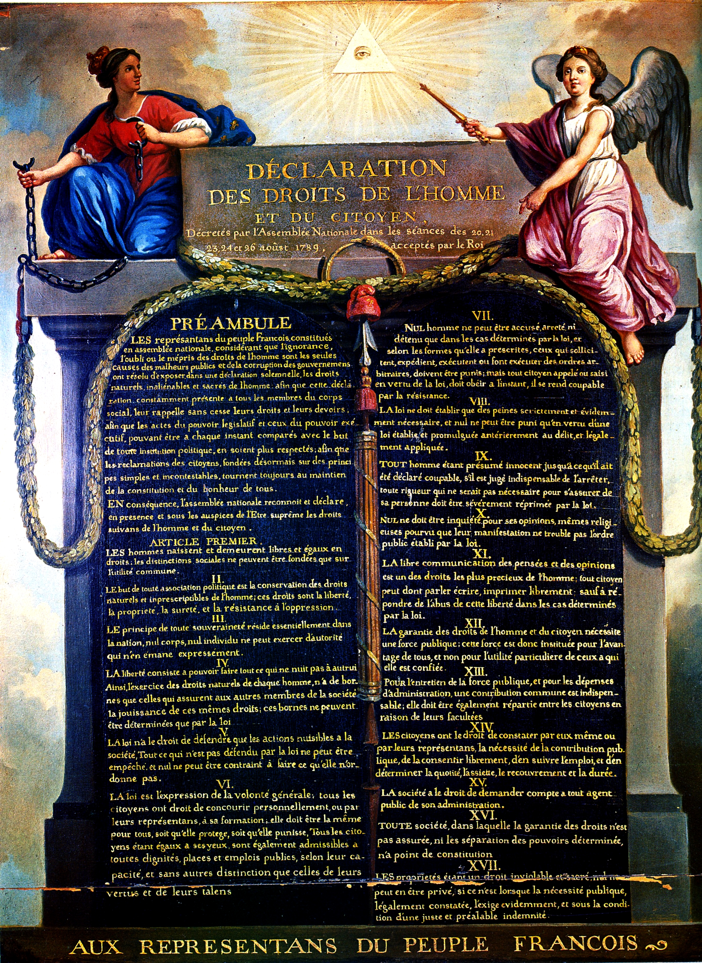 Representation of the Declaration of the Rights of Man and of the Citizen in 1789 Includes "Eye of providence" symbol (eye in triangle)